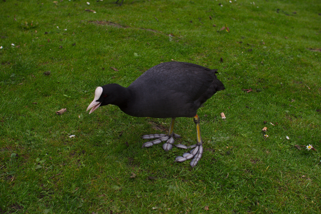 Coot in Utrecht, Netherlands